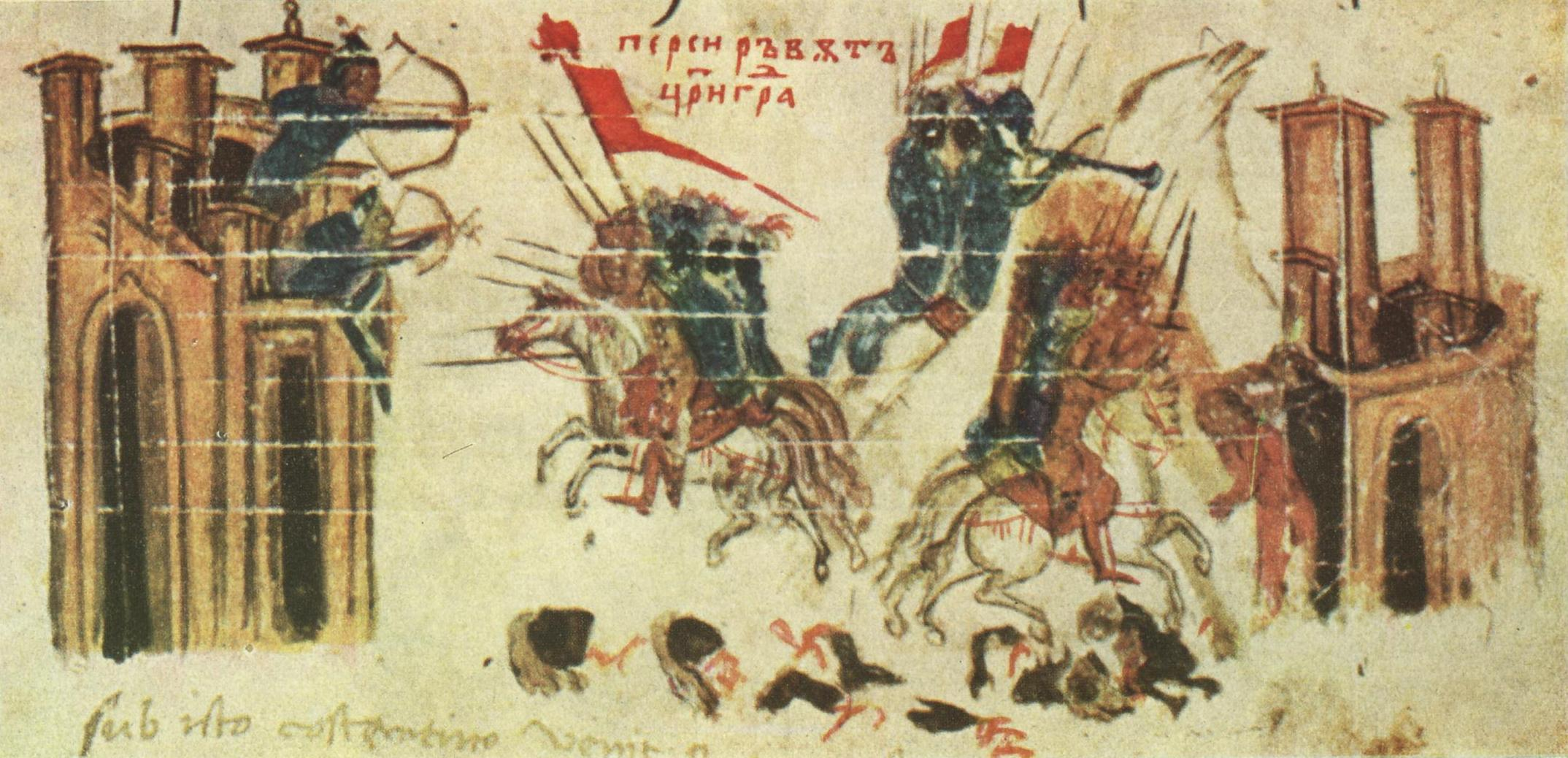 Miniature 42 from the Constantine Manasses Chronicle, 14 century: Emperor Heraclius attacks a Persian fortress, while the Persians attack Constantinople.